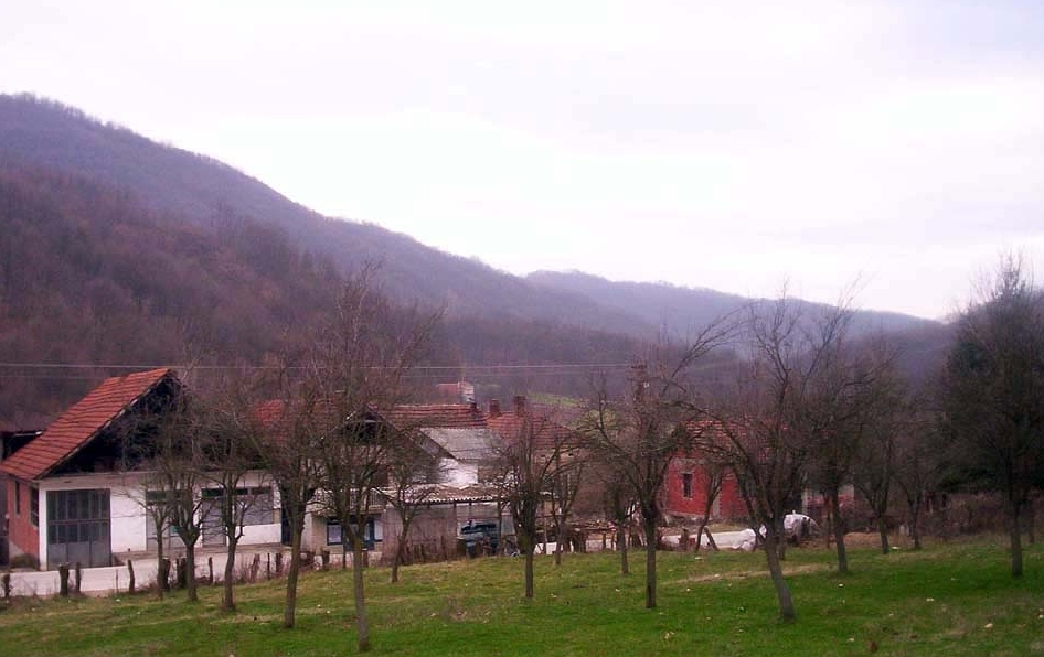 Orchard at Kruševica, near Vlasotince, Serbia